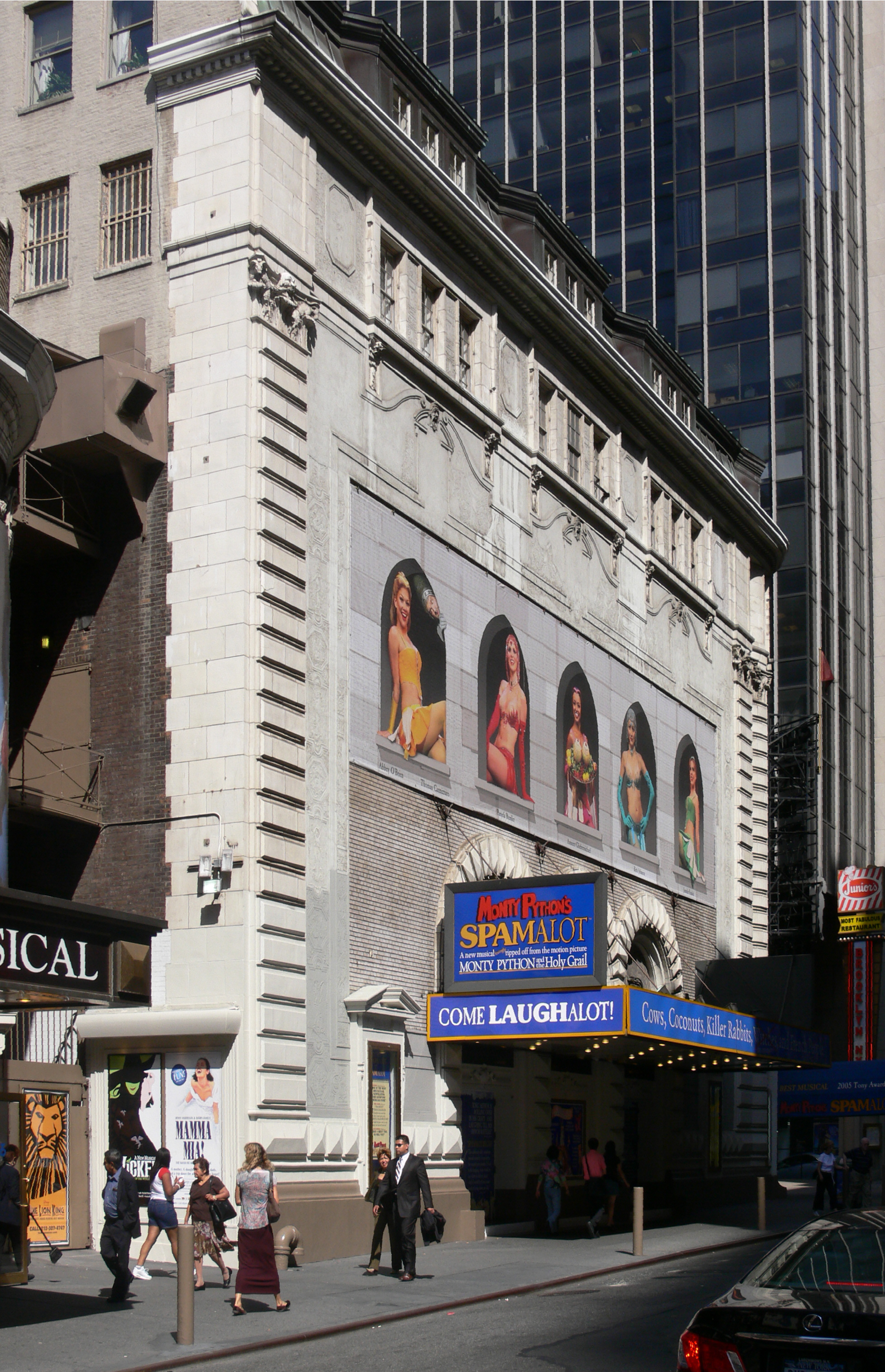 Shubert Theatre, showing Spamalot 225 West 44th Street, Manhattan, New York City